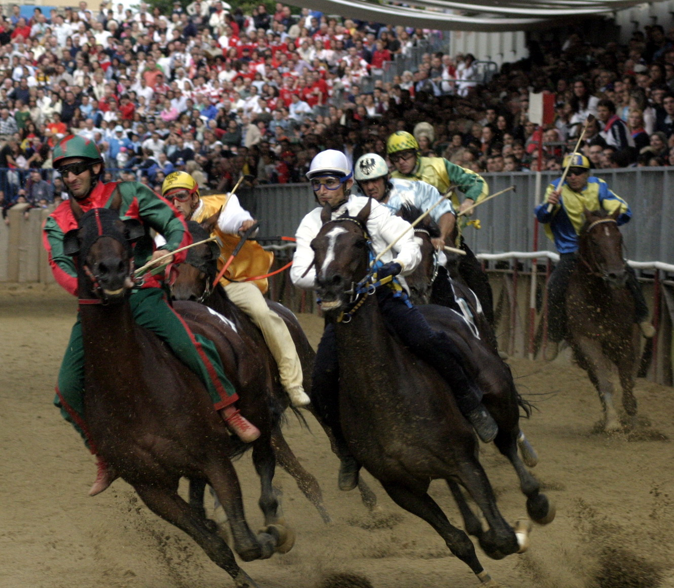 Palio di Asti. Un momento della Corsa.